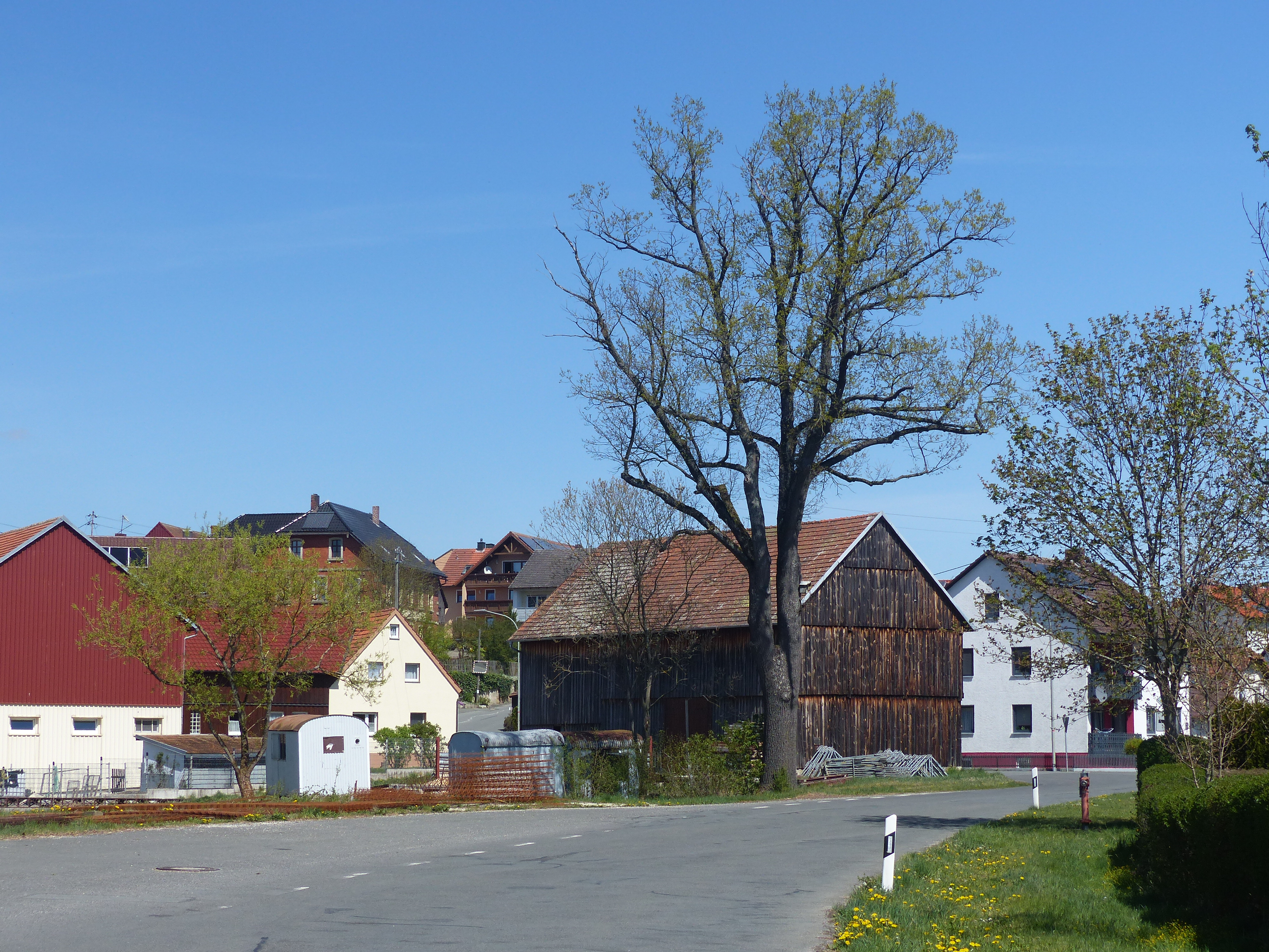 The village Reizendorf, a district of the municipality of Ahorntal.